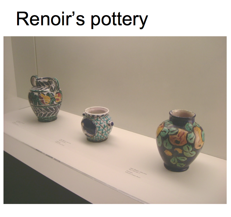 Pottery created by the young Jean Renoir circa 1915-18 before his career as a film maker.